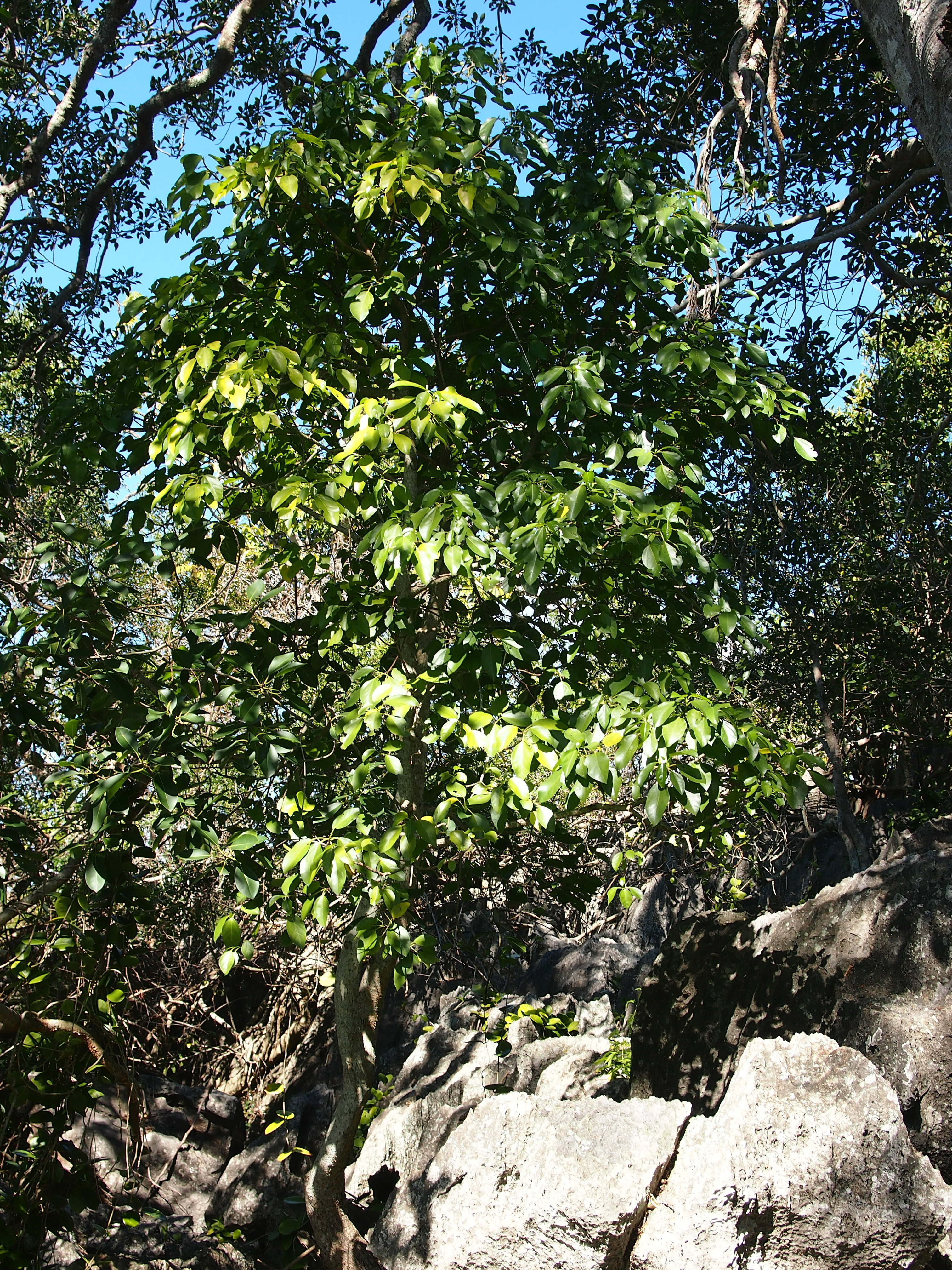 Dendrocnide photinophylla habit